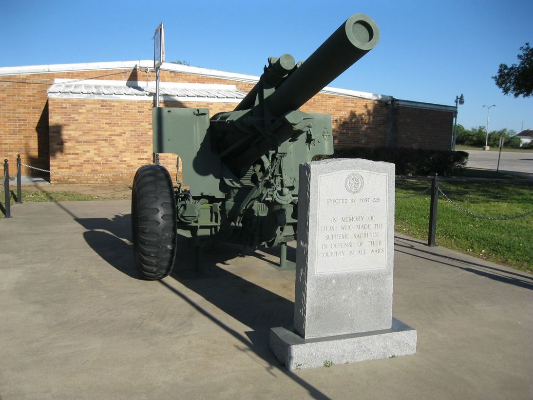 Photo shows a field artillery piece in front of American Legion Post 226 on Highway 60 in East Bernard, Texas. View is to the east.